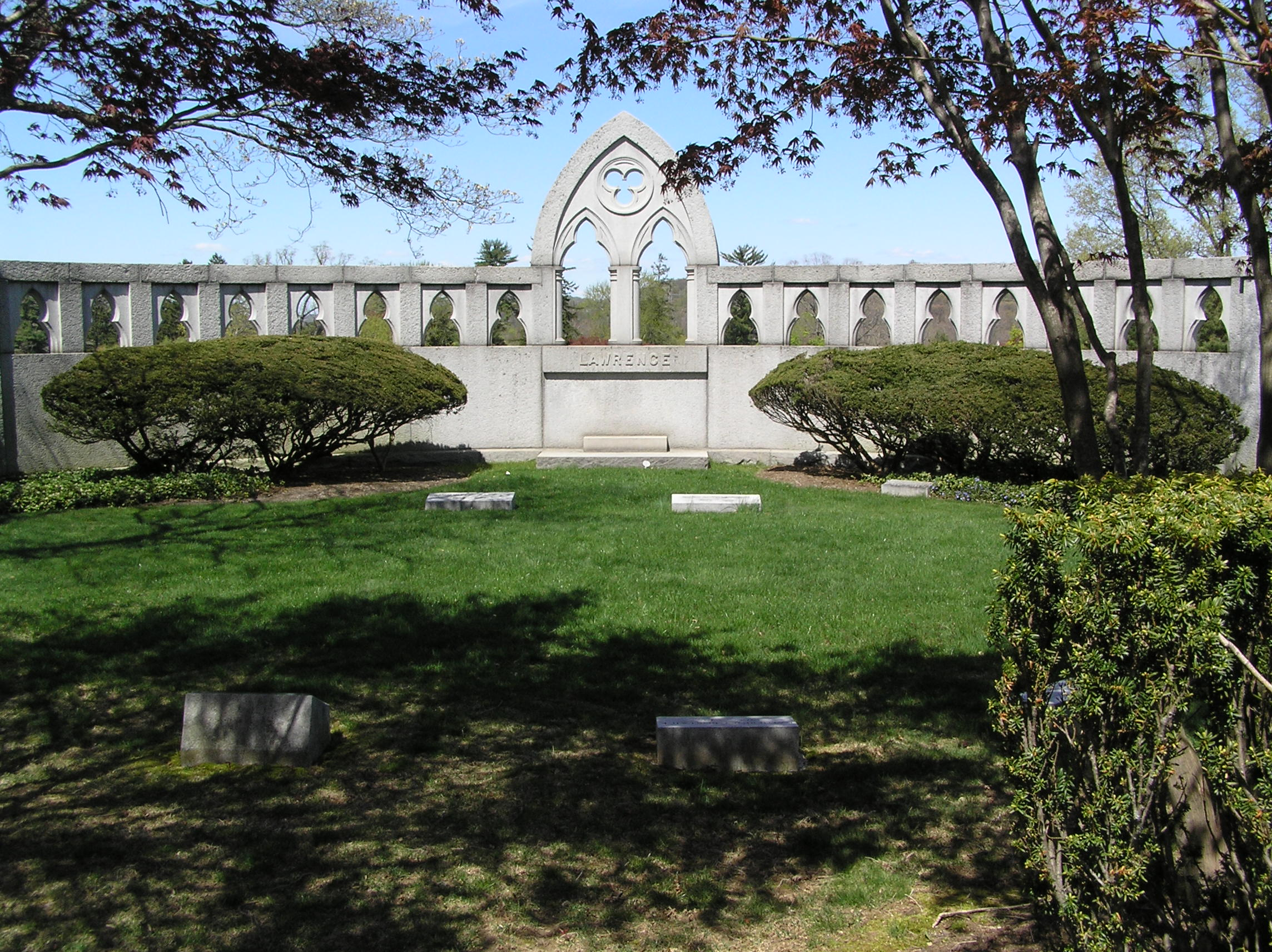 The burial location of William VanDuzer Lawrence at Kensico Cemetery